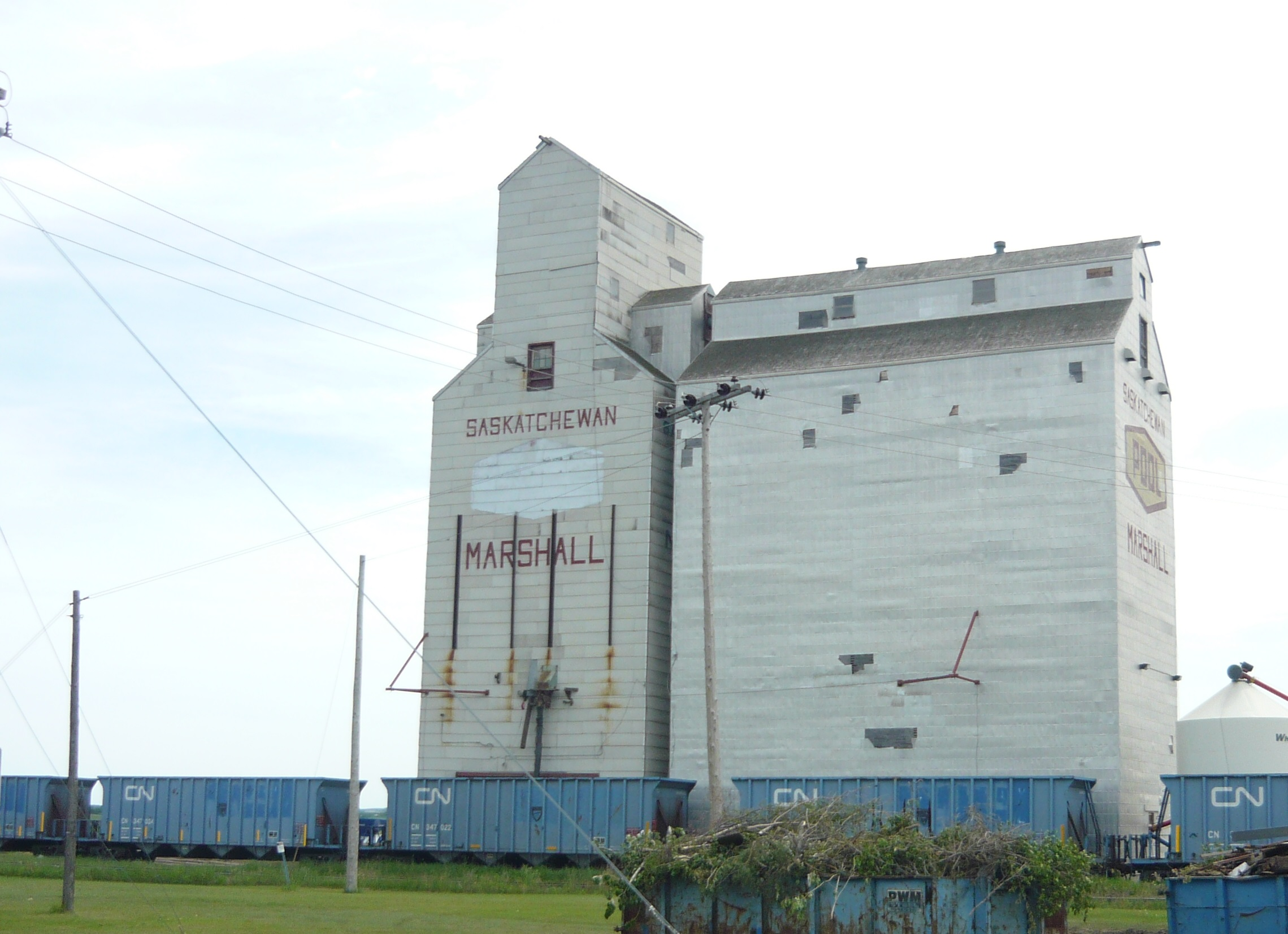 Grain elevator at intersection of Main Street and Railway Avenue, Village of Marshall, Saskatchewan, Canada.